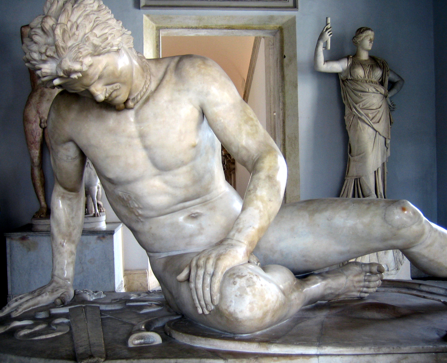 The Dying Gaul is one of the best-known and most important works in the Capitoline Museums. It is a replica of one of the sculptures in the ex-voto group dedicated to Pergamon by Attalus I to commemorate the victories over the Galatians in the 3rd and 2nd centuries BC. The identity of the author of the original is unknown, but it has been suggested that Epigonus, the court sculptor of the Attalid dynasty of Pergamon, may have been its creator.